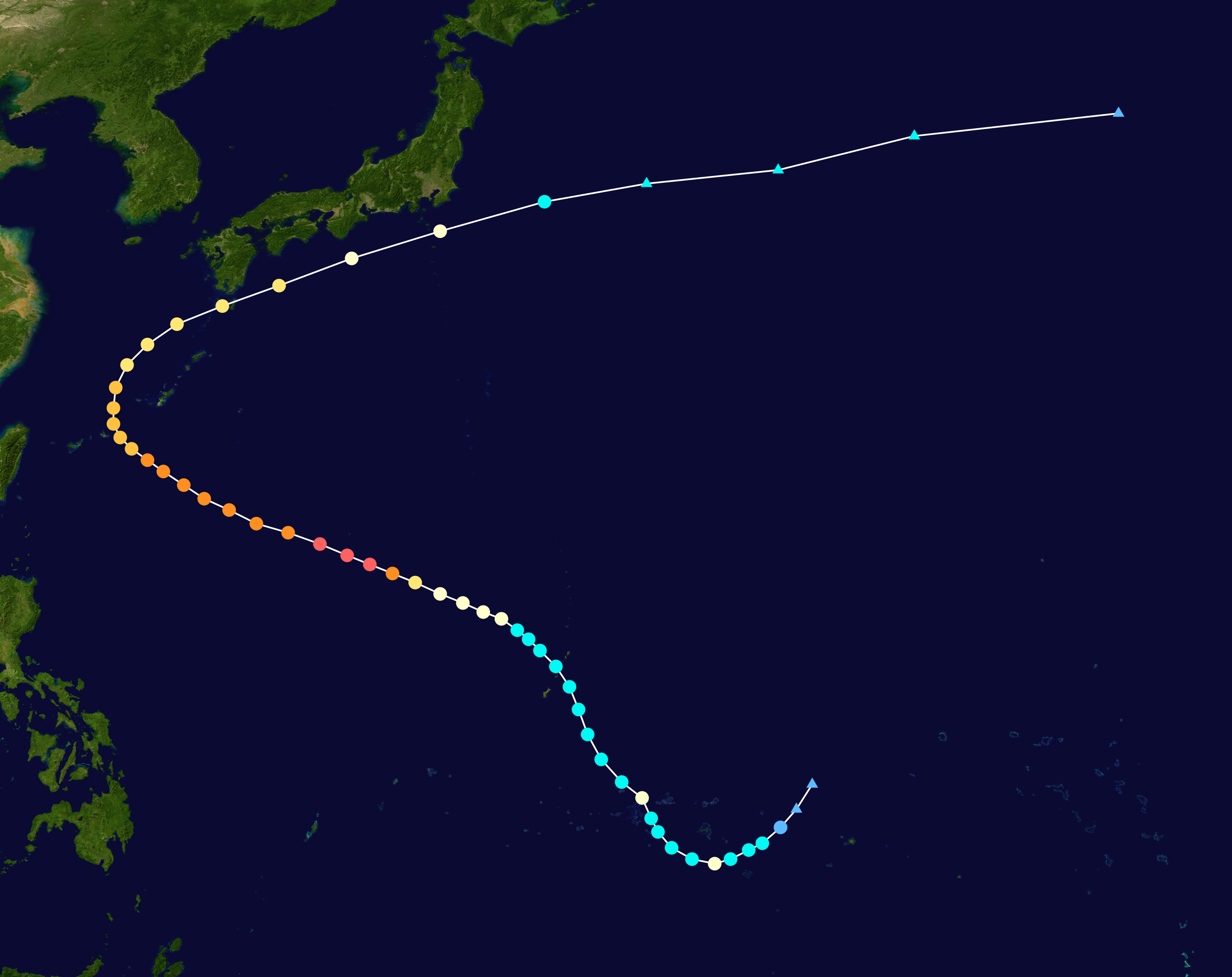 Typhoon Wynne 1980 track. Uses the color scheme from the Saffir-Simpson Hurricane Scale.